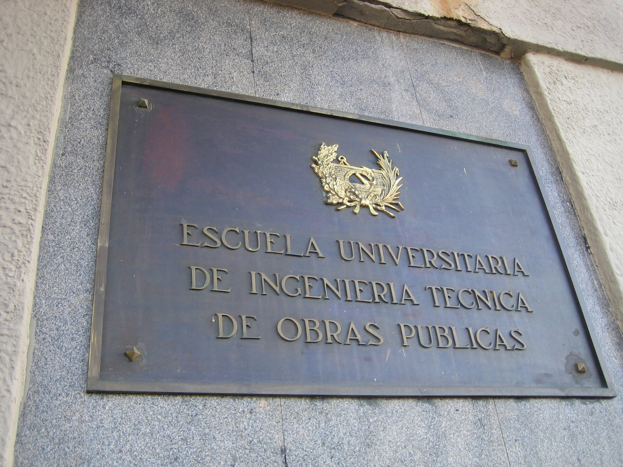 Arms of EUITOP